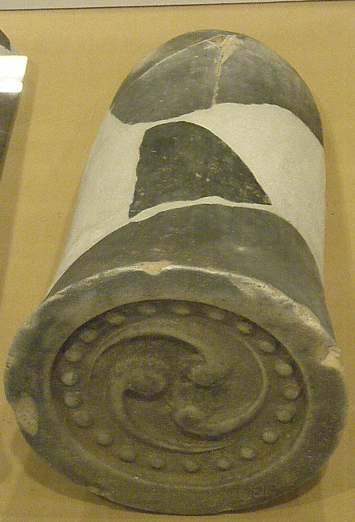 Roof tile of Wakabayashi Castle. Excavated in the castle site in 2008, Furujiro, Wakabayashi ward, Sendai, Miyagi prefecture, Japan. Made in early 17th century.